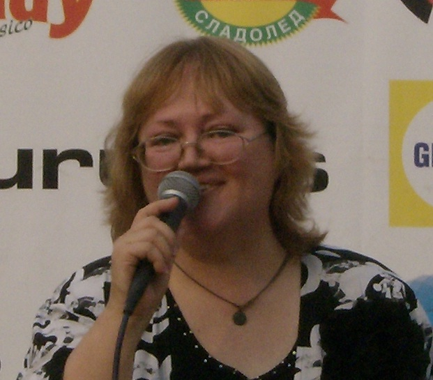 Vanya Kostova, Tryavna 09/16/2011